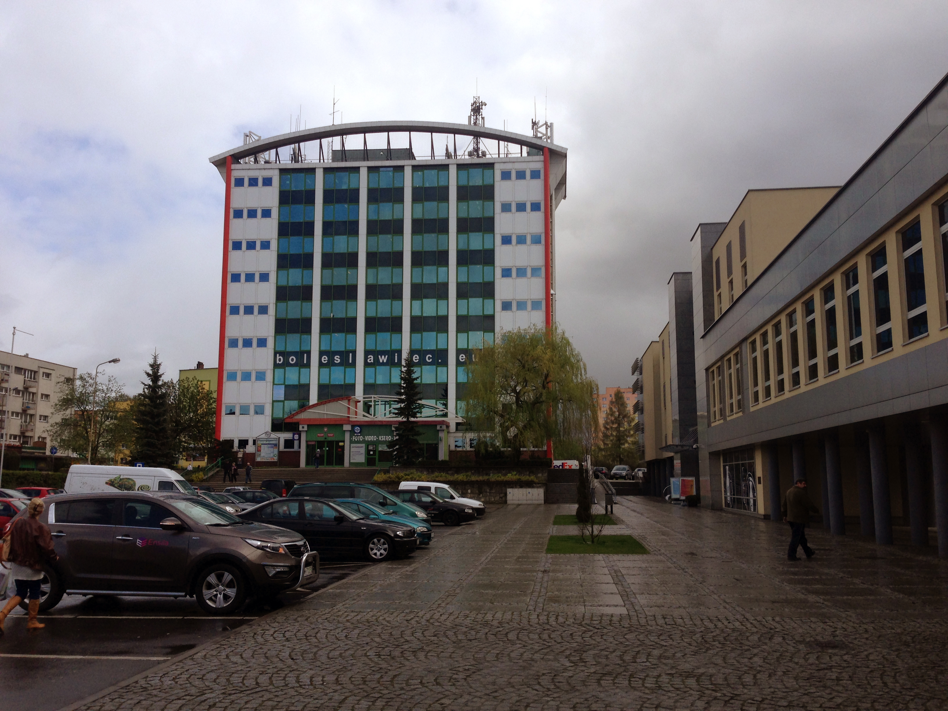 View of the Joseph Pilsudski Plaza in Boleslawiec, Poland.